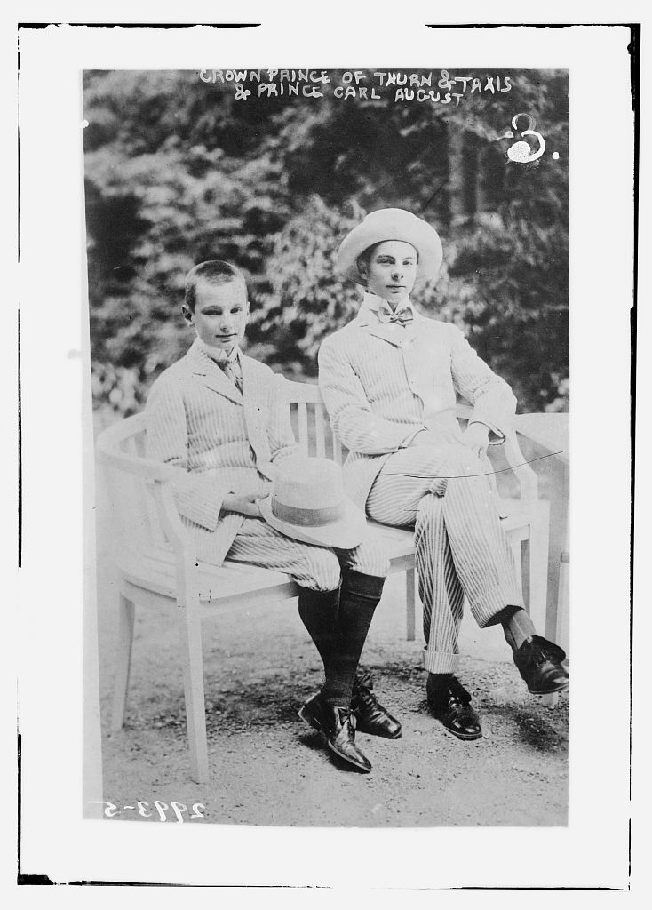 Crown Prince of Thurn & Taxis and Prince Carl August (LOC) Bain News Service,, publisher. Crown Prince of Thurn & Taxis and Prince Carl August Franz Joseph (21 December 1893 – 13 July 1971) and Karl August (23 July 1898 – 26 April 1982) [between ca. 1910 and ca. 1915] 1 negative : glass ; 5 x 7 in. or smaller. Notes: Title from unverified data provided by the Bain News Service on the negatives or caption cards. Forms part of: George Grantham Bain Collection (Library of Congress). Format: Glass negatives. Repository: Library of Congress, Prints and Photographs Division, Washington, D.C. 20540 USA, General information about the Bain Collection is available at Persistent URL: Call Number: LC-B2- 2993-5